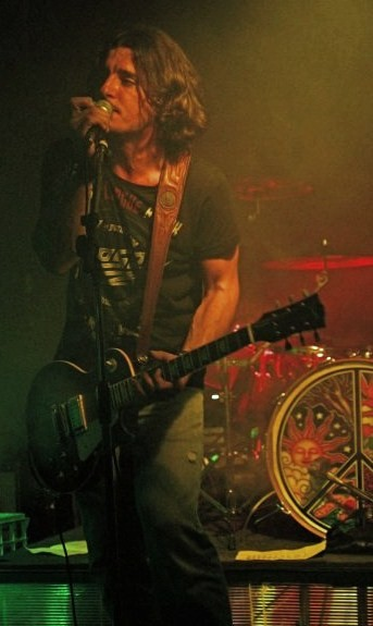 Taken Live At The Fuse Festival